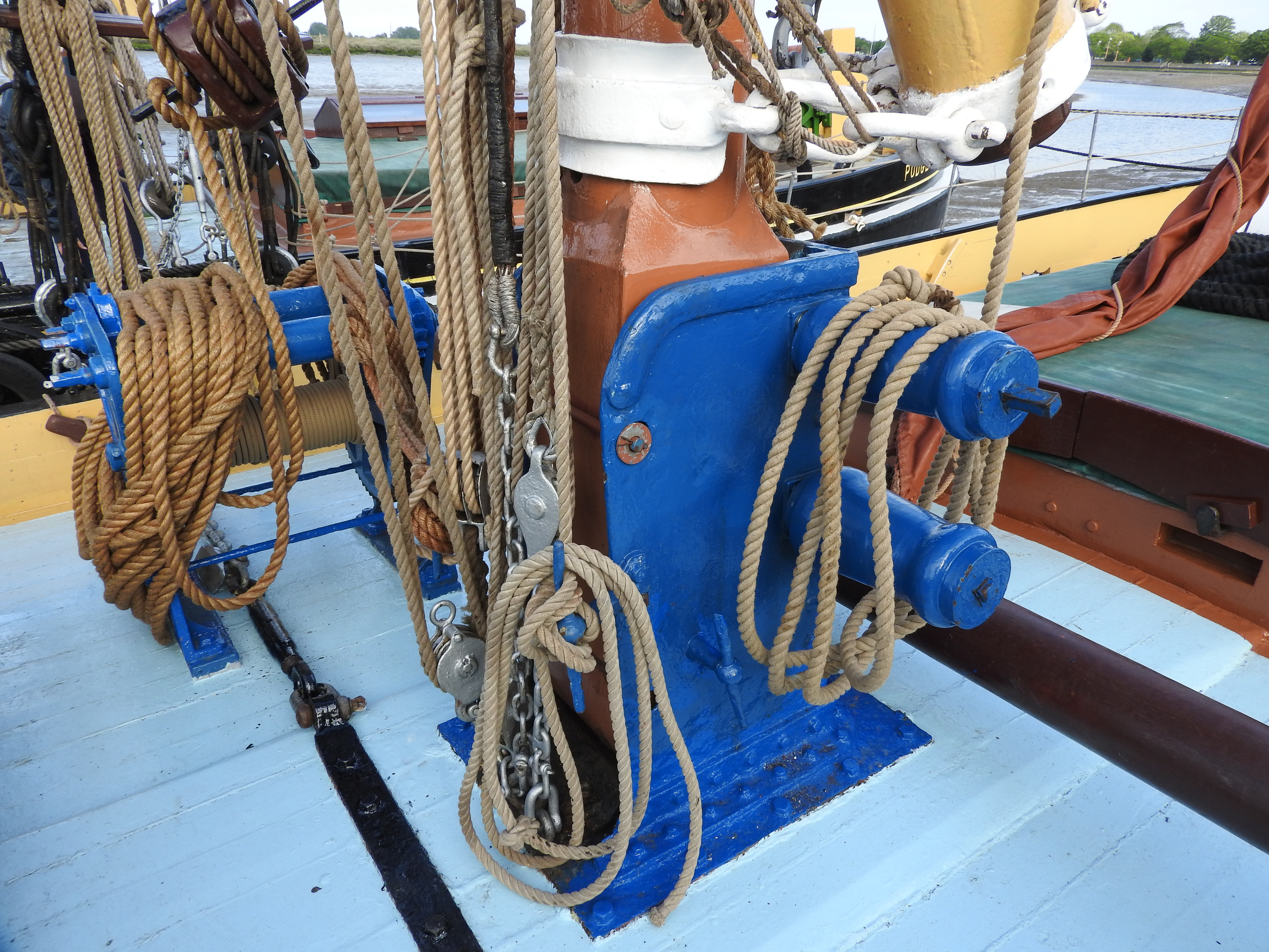 SB Centaur (1895). Thames Sailng Barge Trust- Pudge (1922) and Centaur (1895), and the lighter Sailorman (1931) are moored at Hythe Quay, Maldon.